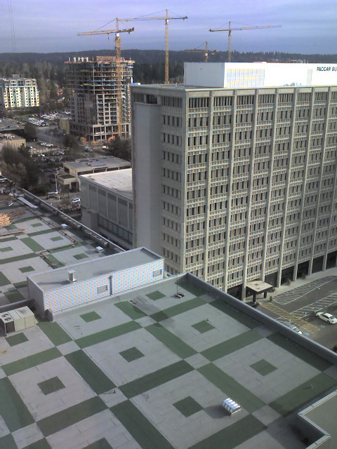 In downtown Bellevue, Washington. Reminds me of parts of Tokyo.